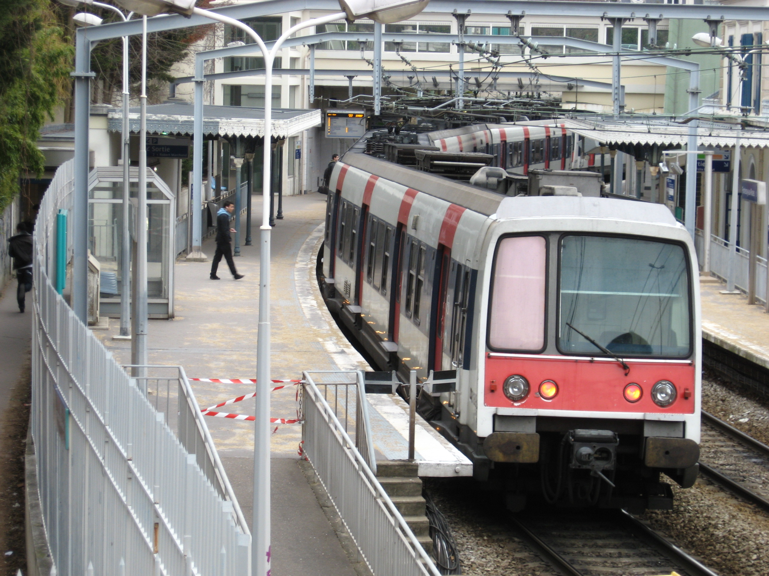 RER train in Fontenay-aux-Roses on the Robinson branch